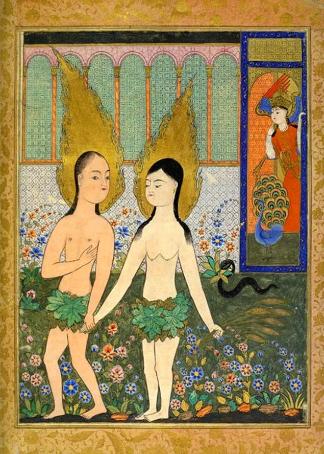 Adam and Eve expelled from Paradise, Library